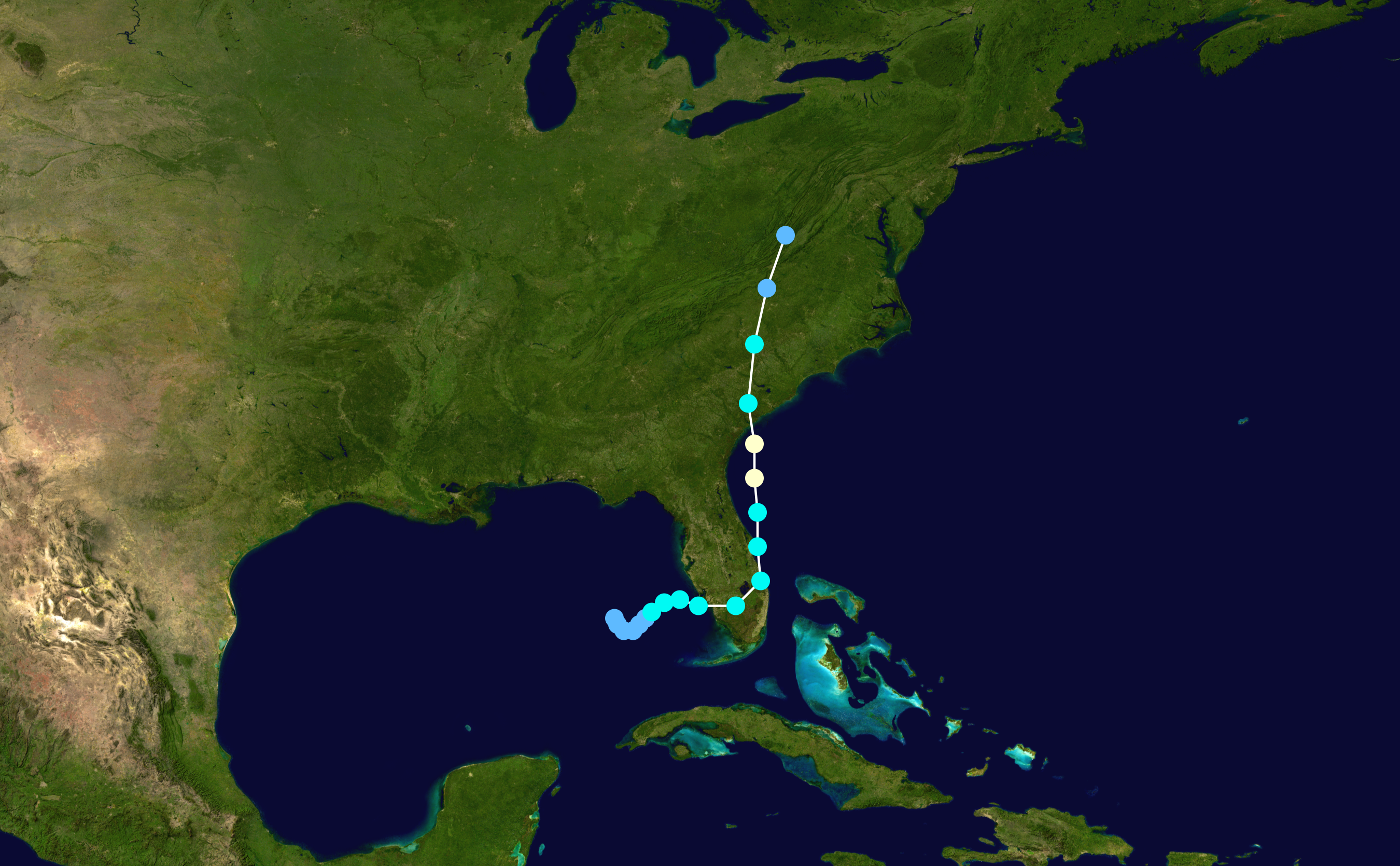 Hurricane Bob (1985) track. Uses the color scheme from the Saffir-Simpson Hurricane Scale.